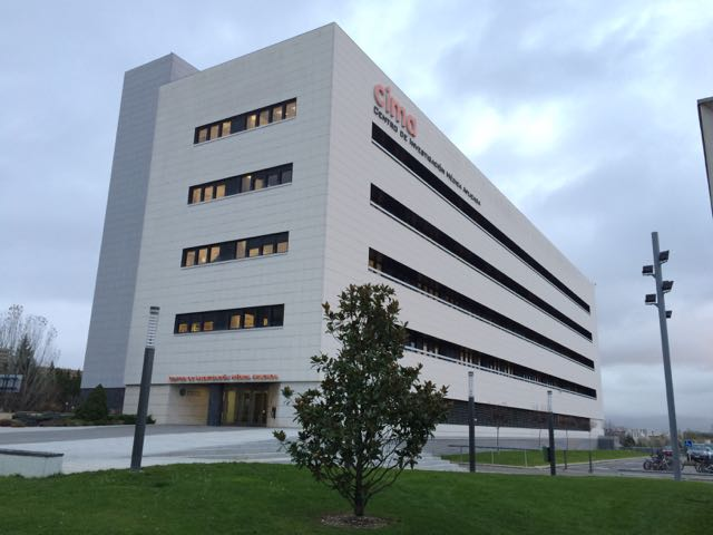 CIMA - Centre for Applied Medicine - Pamplona